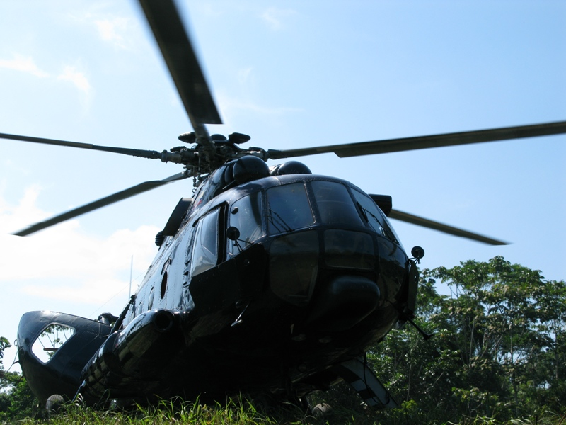 MI-8 RUSSIAN HELICOPOTER. PHOTO TAKE IN COLOMBIA.